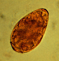 Egg of lung fluke (Paragonimus wetermani).